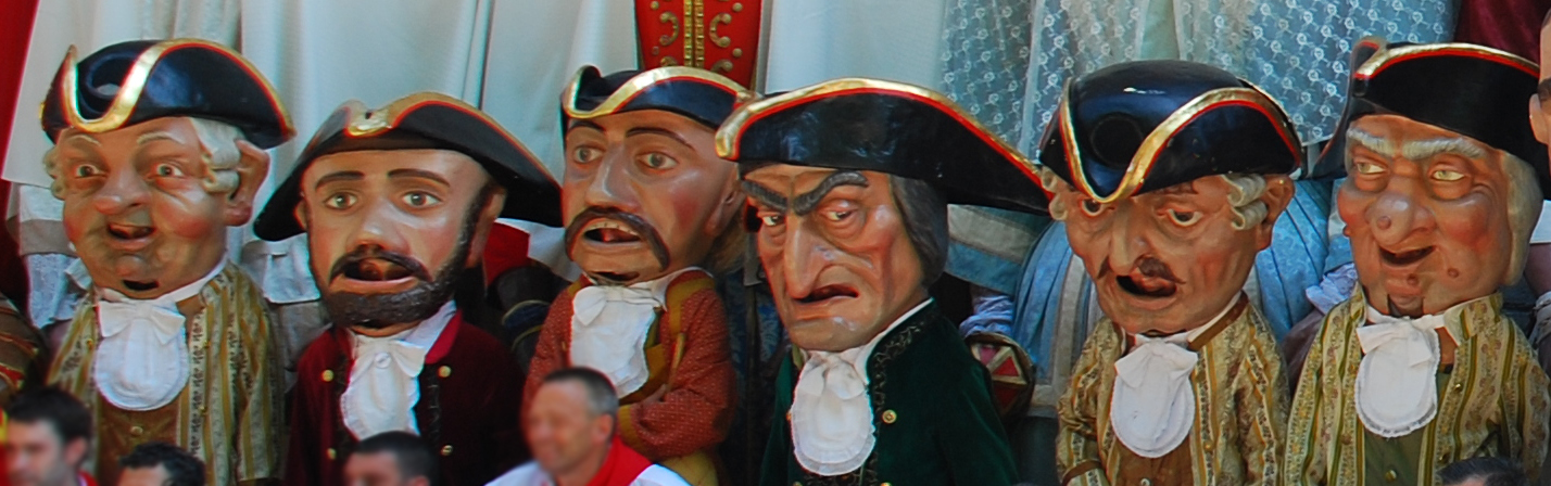 Kilikis Pamplona. De izq. a dcha., Patata, Barbas, Coletas, Caravinagre, Napoleón y Berrugó